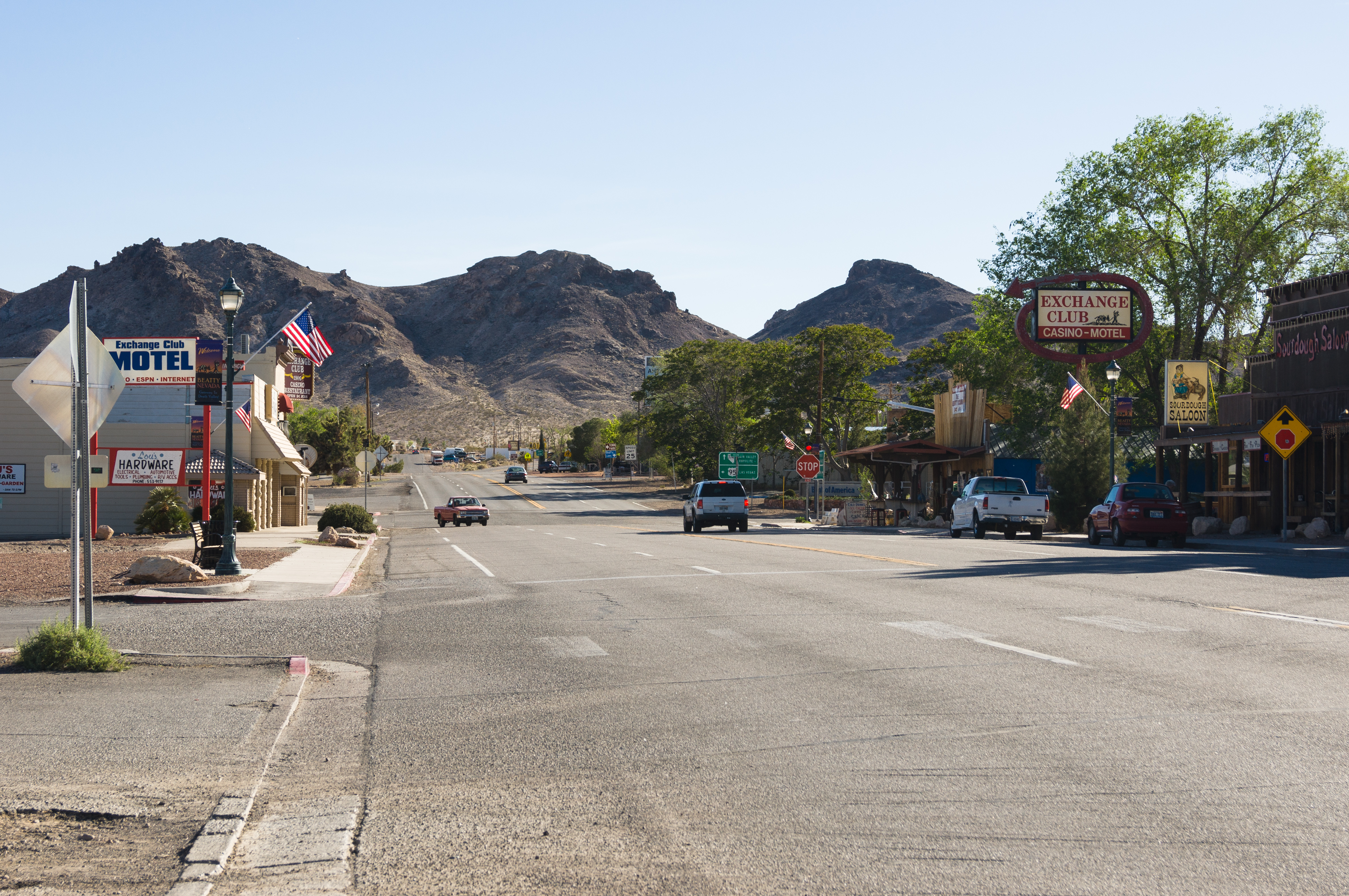 U.S. Route 95, Main Street in Beatty, Nevada.